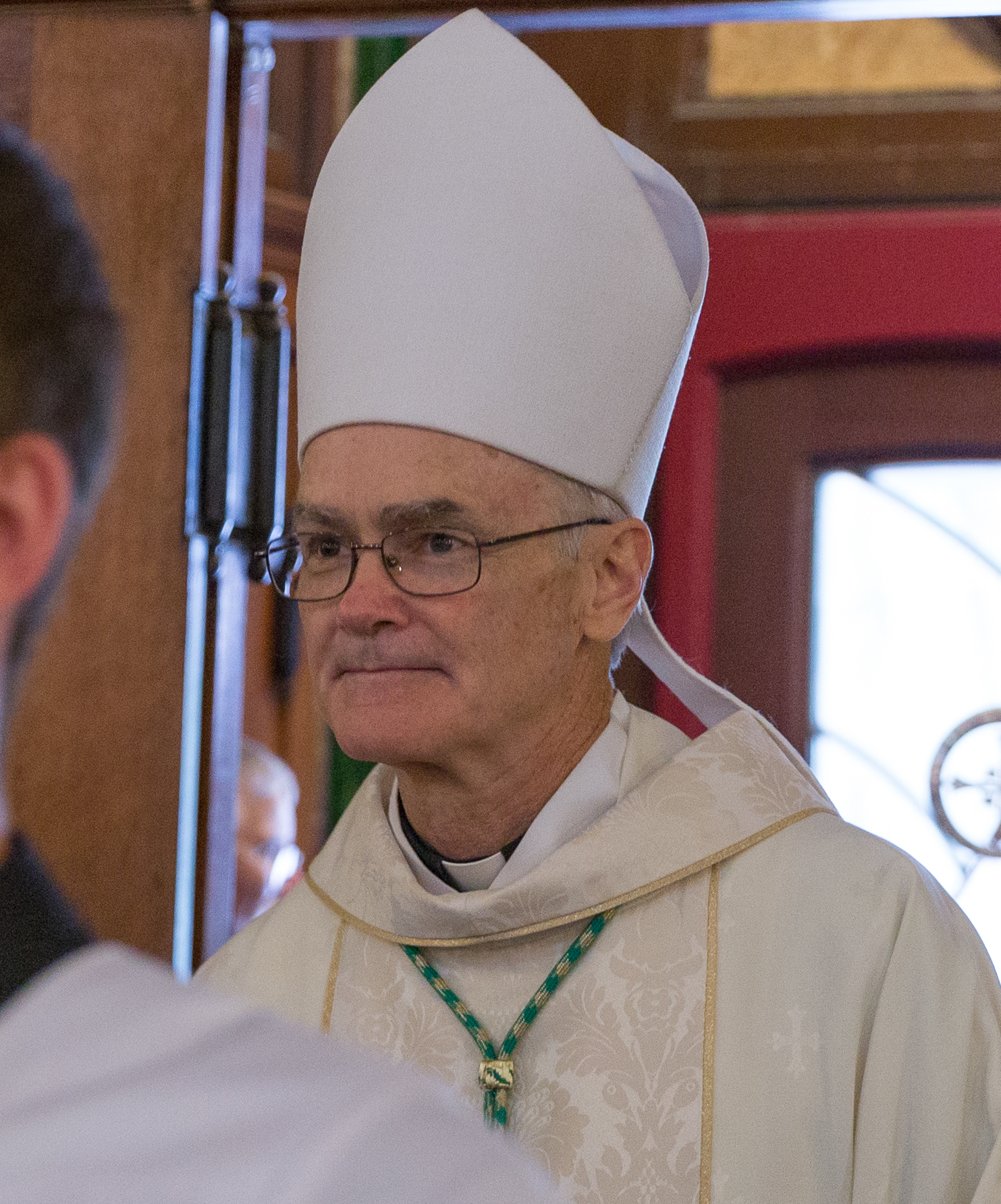 Bishop John Gregory Kelly